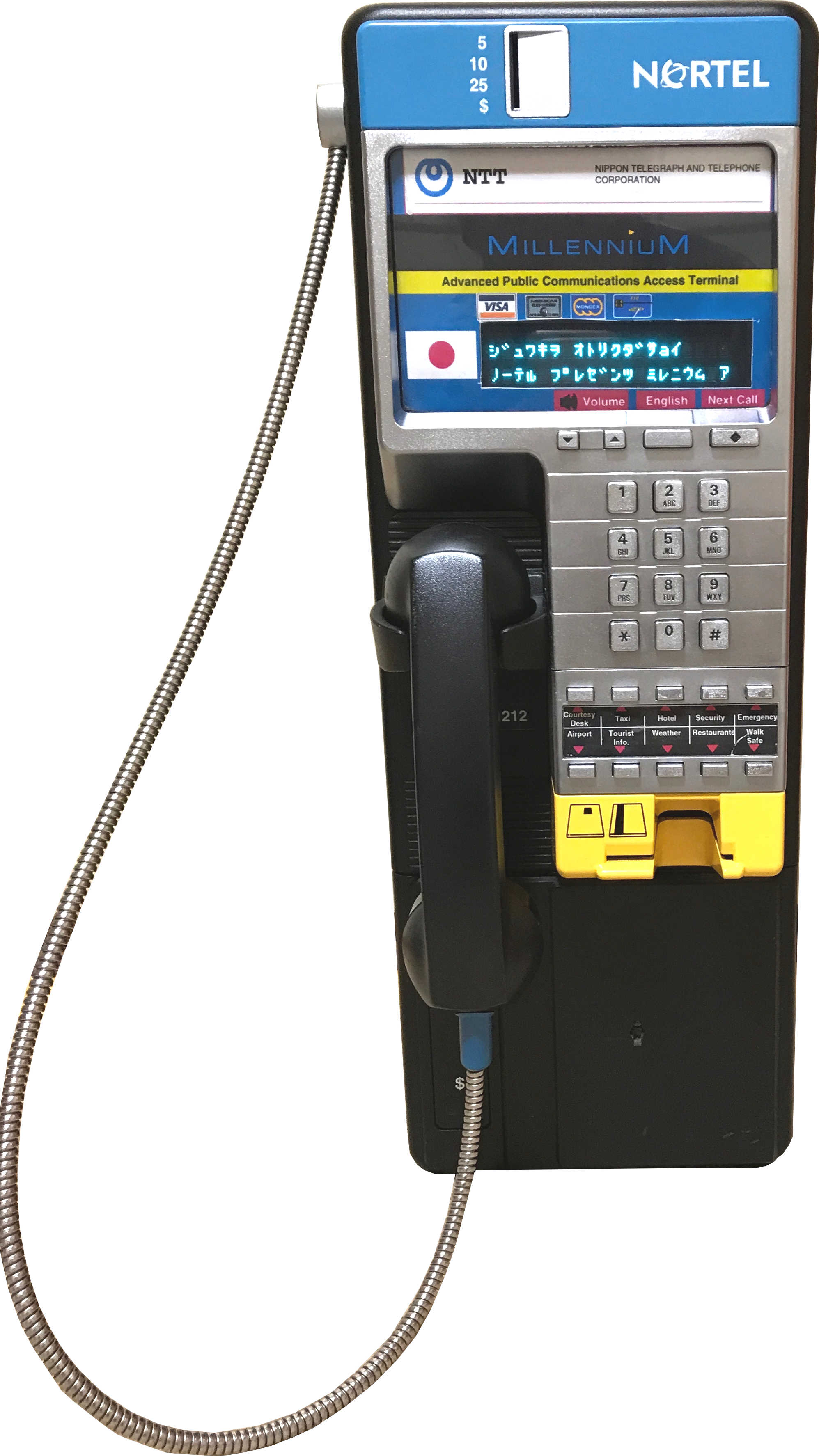 NORTEL MILLENNIUM PAYPHONE for NTT (Nippon Telegraph and Telephone Co., Ltd.